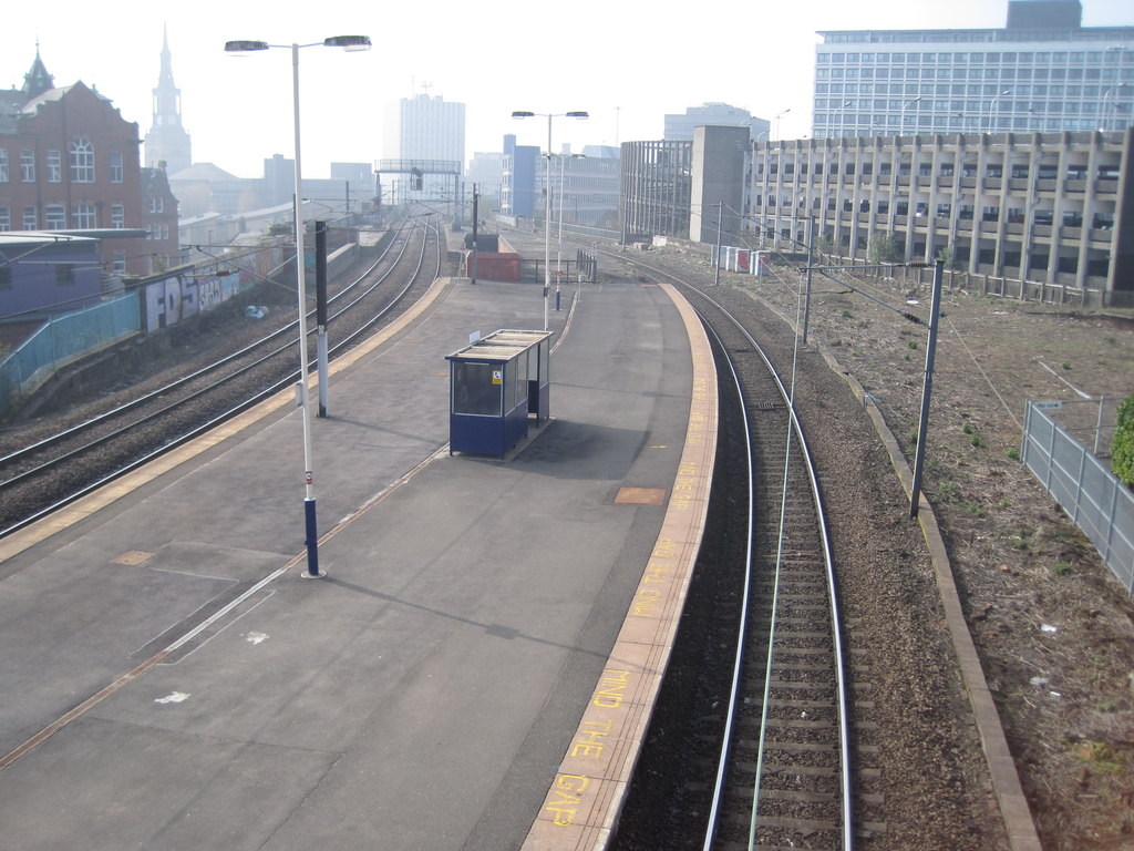 Manors (East) railway station, Tyne & WearOpened in 1850 by the Newcastle & Berwick Railway. View south west towards Newcastle. The land to the right of the image was part of the adjacent Manors North station between 1909 and 1978. Both stations were part of the local Tyneside rail network which has been largely superseded by the Tyne & Wear Metro, now served by the nearby Manors Metro station.